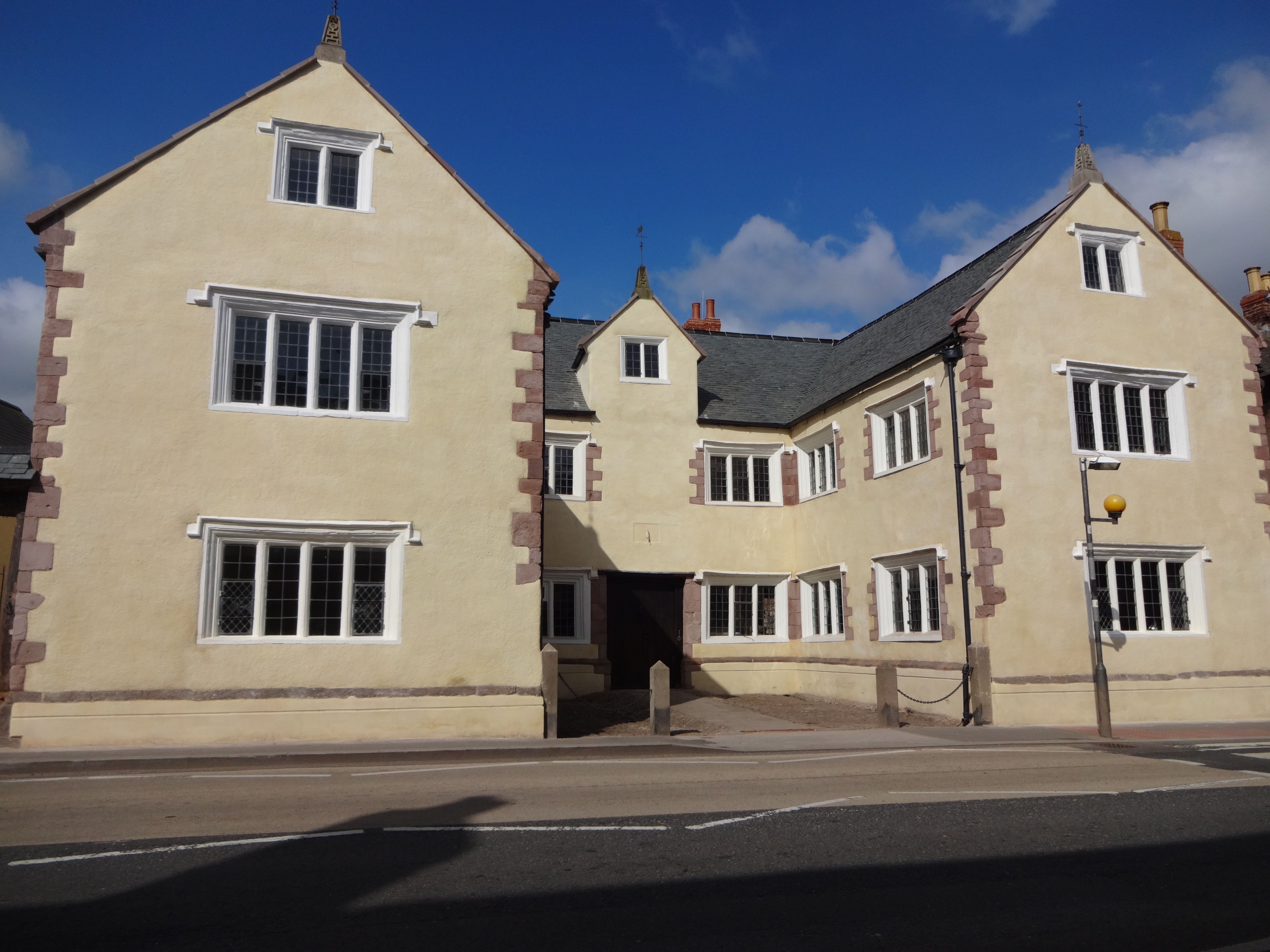 A Tudor town house in the town of Cullompton, Devon. The house has recently been restored.